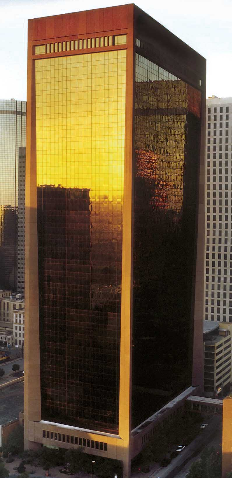 KPMG Centre, Dallas, texas